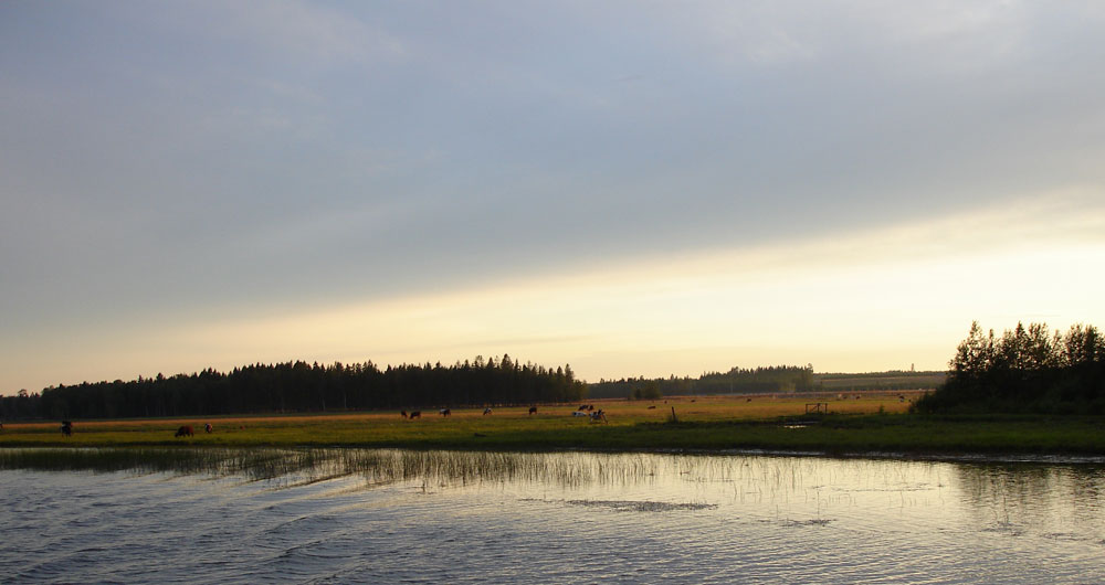 Wet meadows by Västerfjärden in the delta of the river Umeälven has been cleared and are now managed with cattle grazing.